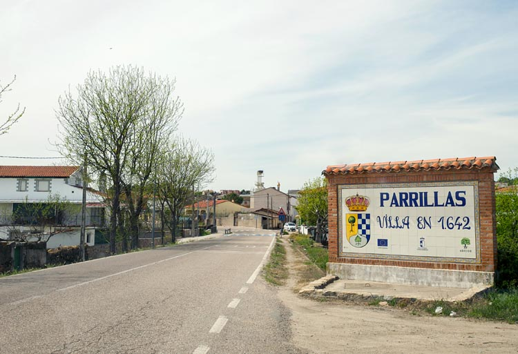 Entrada a Parrillas